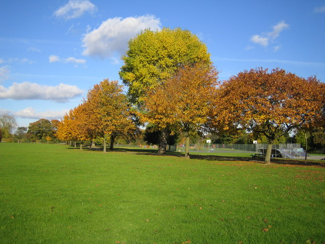 Seven Kings Park Autumn colours displayed in these trees in the park which is maintained by the London Borough of Redbridge.